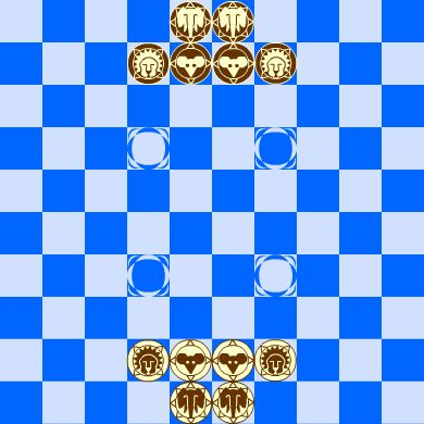 Diagram of the starting setup of the Barca board game